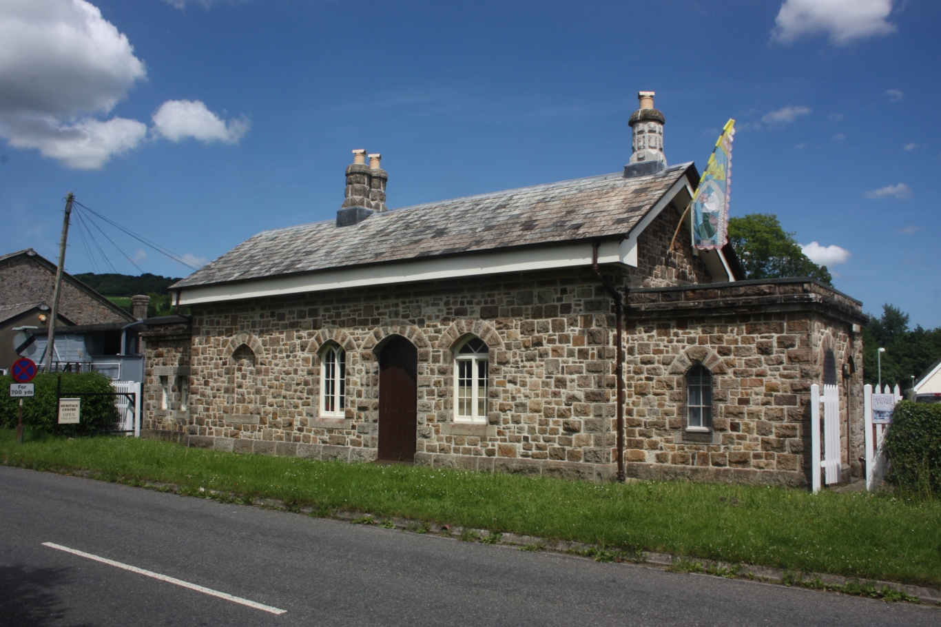 The old railway station at Bovey Tracey hasn't seen a train in more than half a century and the track has become a road.